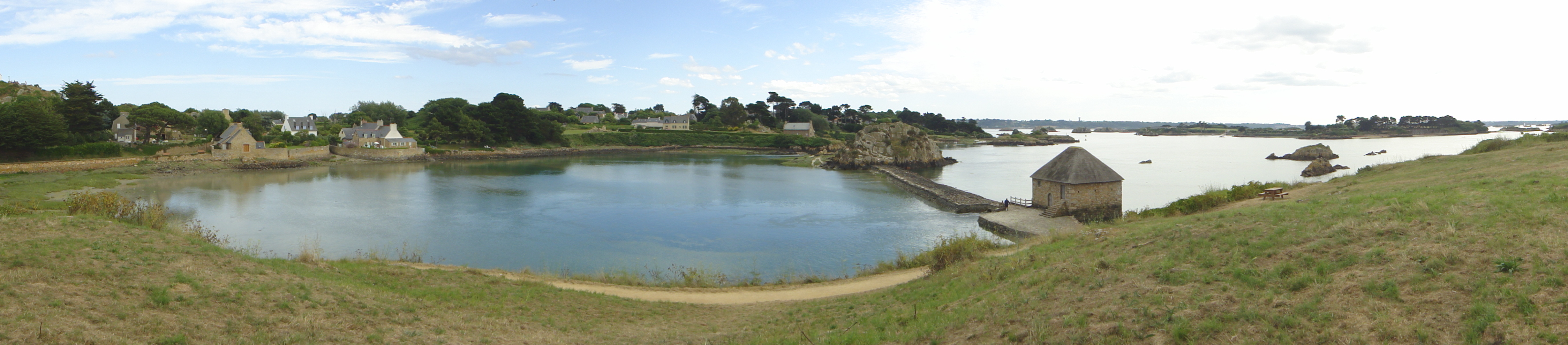 The "Birlot" tide mill, on Île-de-Bréhat.